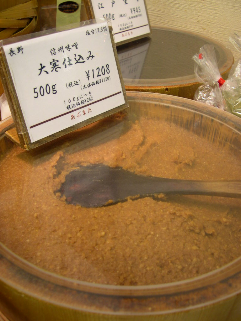 Miso for sale in a Tokyo food hall.